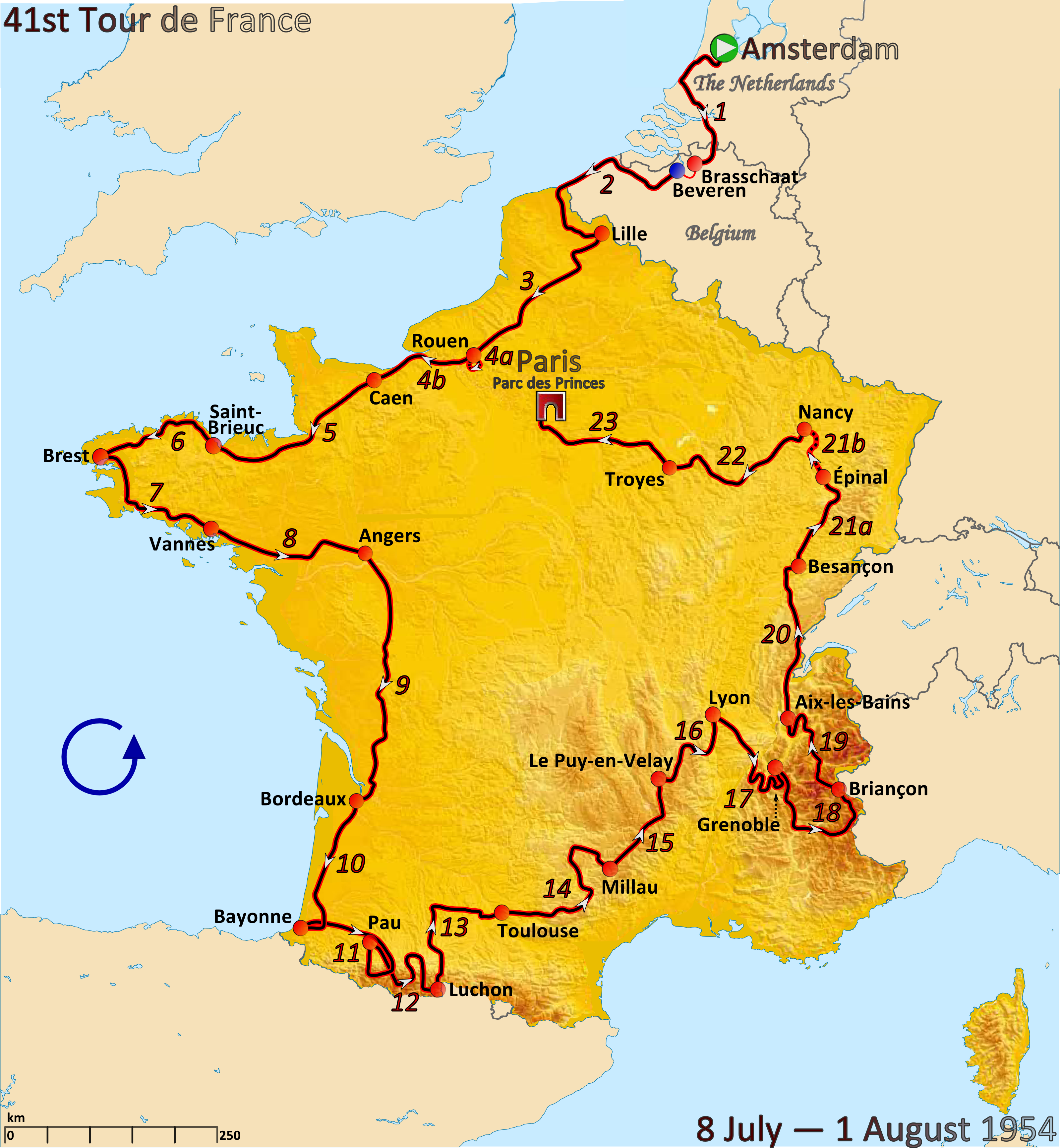 Map of the 1954 Tour de France created in Inkscape using accurate stage maps from touratlas.nl.